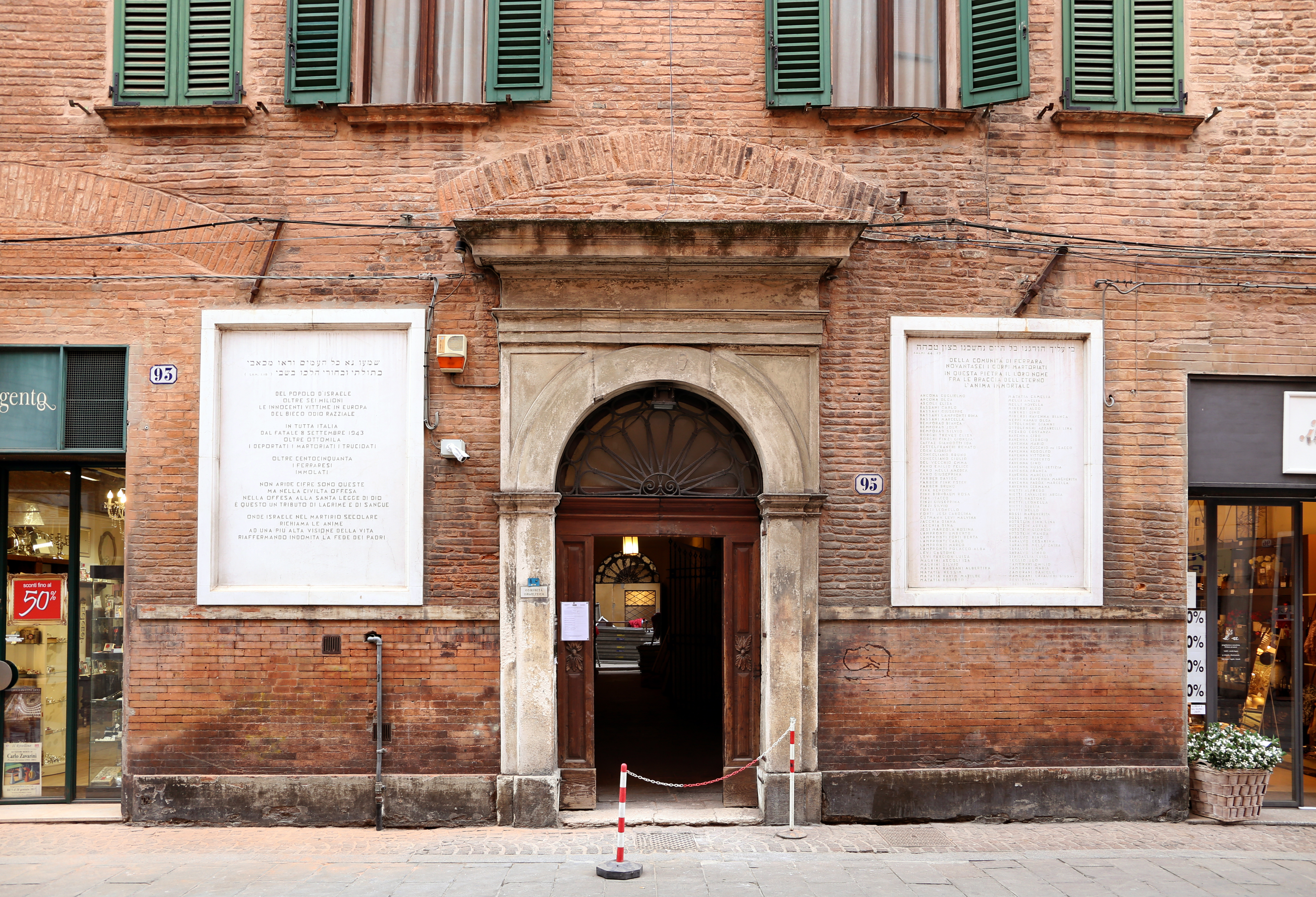 Ferrara